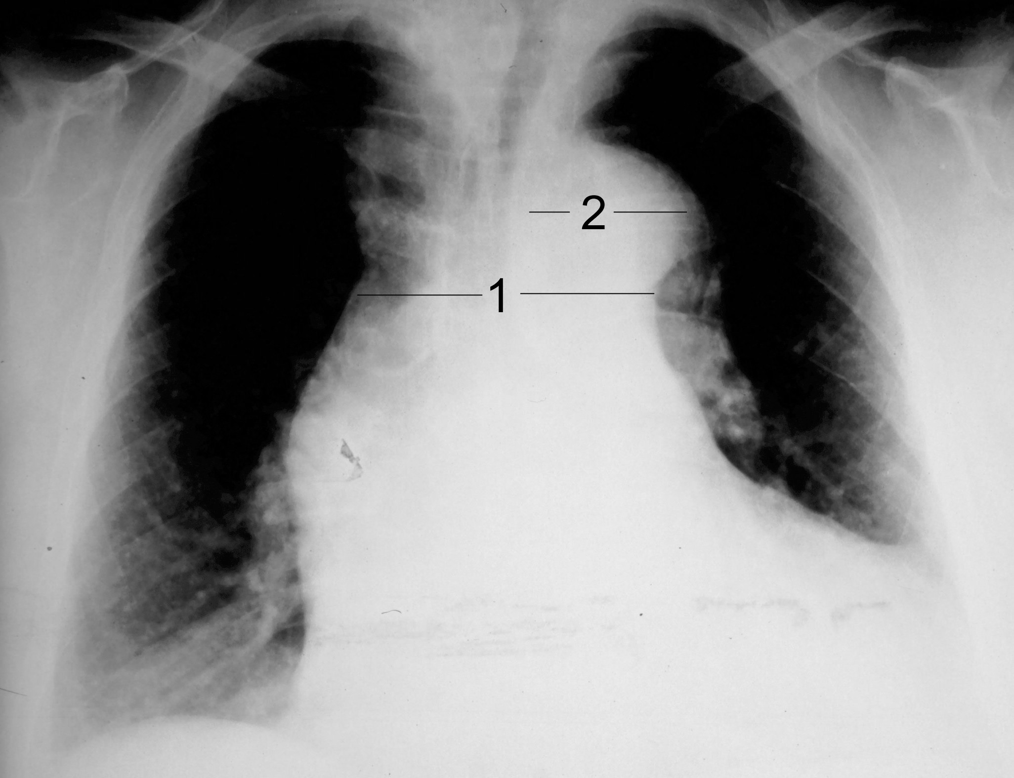 chest x-ray of aortic dissection type Stanford A